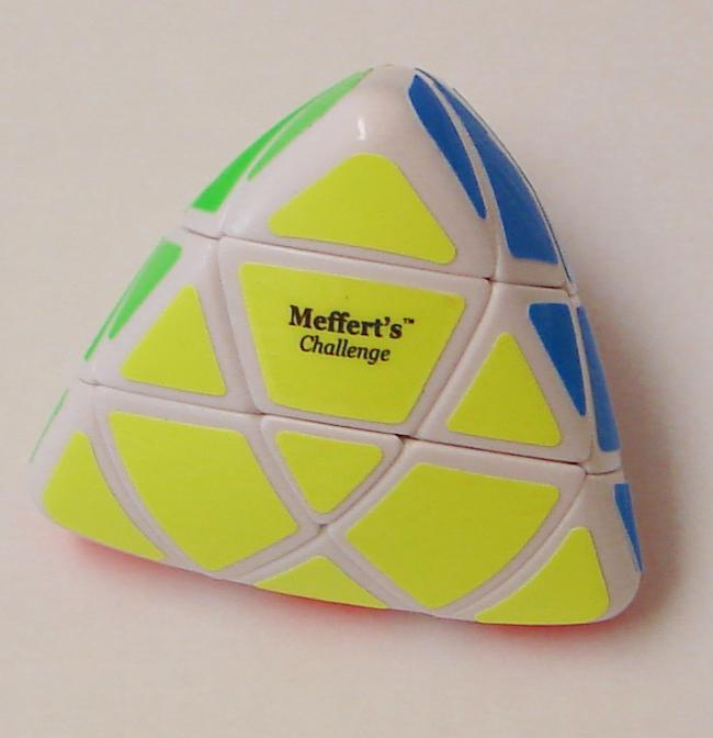 Mèffert's pillowed Master Pyramorphix, solved.